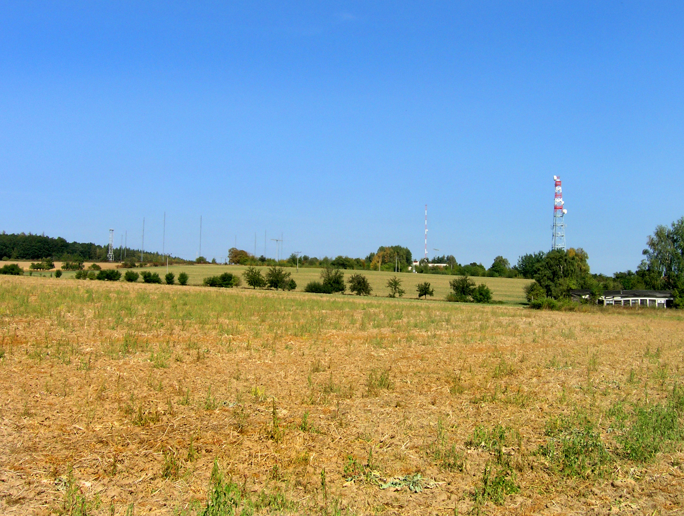 Transmitters in Charbuzice, part of Stěžery village, Czech Republic